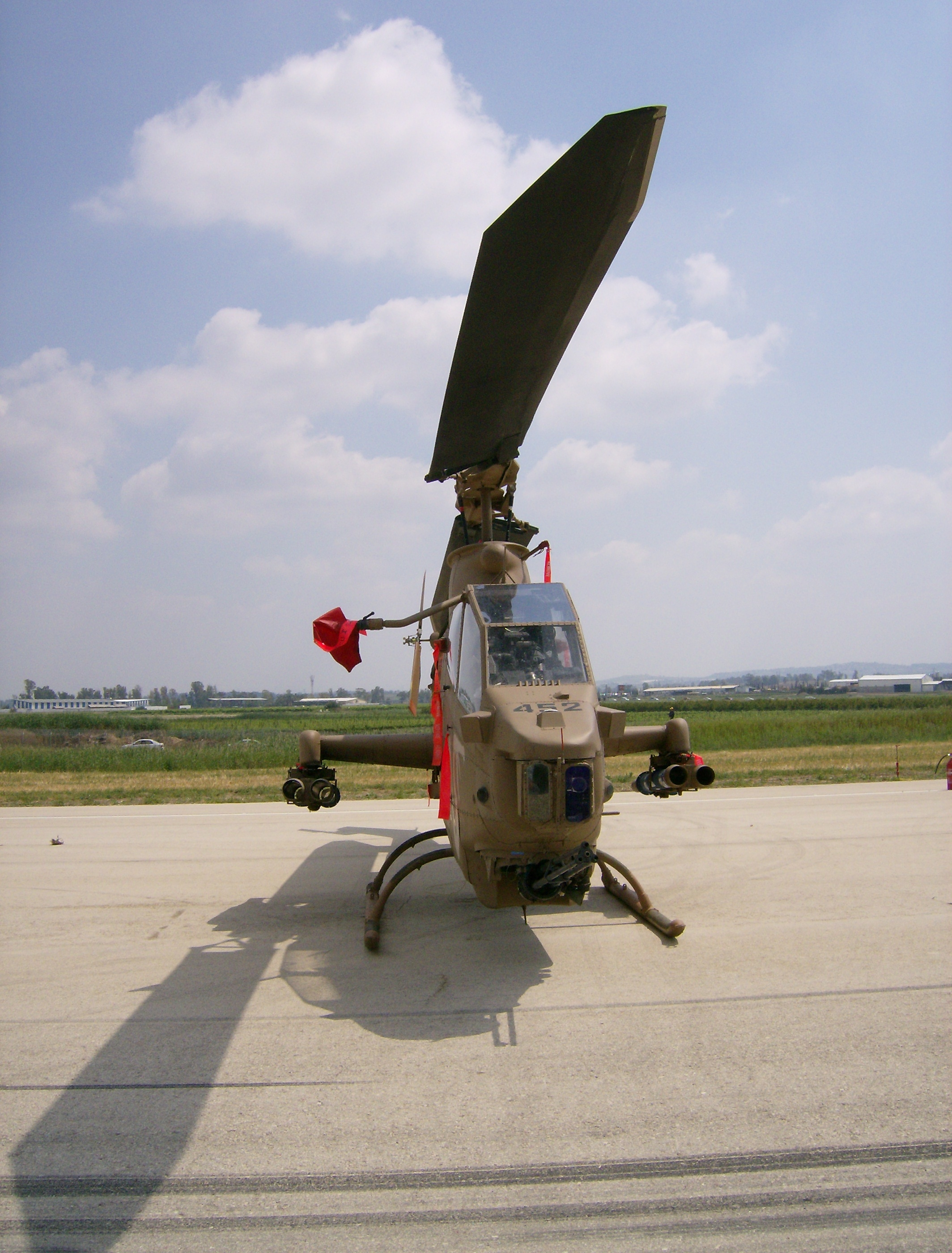 a cobra, Israel Air Force, Tel Nof, Israel